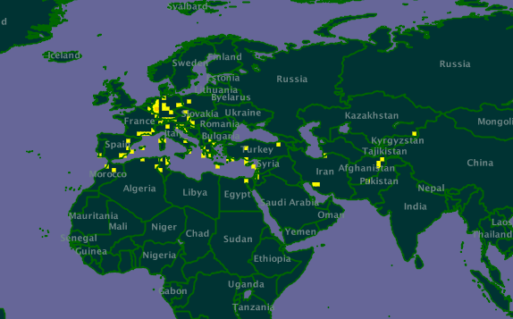 Map of occurrences of Polistes gallicus. Source: ZOBODAT (Vespoidea). Gusenleitner J. (2011). ZOBODAT: Zoological-Botanical Database (Vespoidea). In: Species 2000 & ITIS Catalogue of Life: 2011 Annual Checklist (Bisby F.A., Roskov Y.R., Orrell T.M., Nicolson D., Paglinawan L.E., Bailly N., Kirk P.M., Bourgoin T., Baillargeon G., Ouvrard D., eds). DVD; Species 2000: Reading, UK. (accessed through GBIF data portal, 2014-09-23)